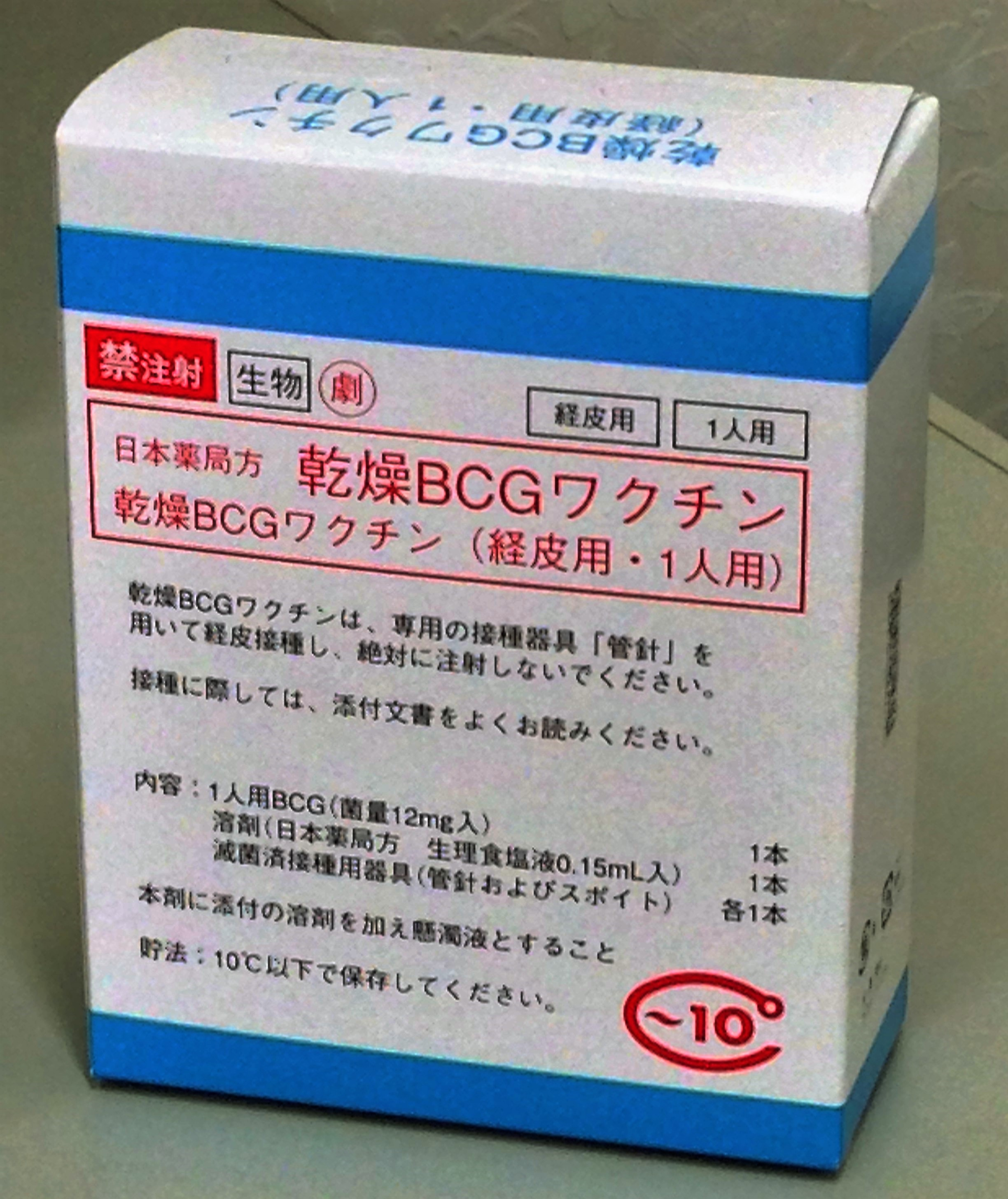 Bacillus Calmette–Guérin (BCG) vaccine